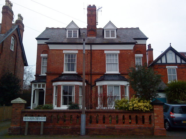 Imperial Avenue, Beeston Good looking and quirky housing with an elegant garden wall.